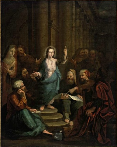 Later imitation of a Rembrandt - see Christie's sale details.